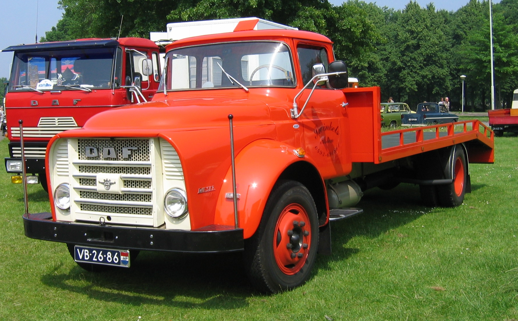 A DAF diesel automobile at the DAF exposition during the Eindhoven Pole Position weekend.